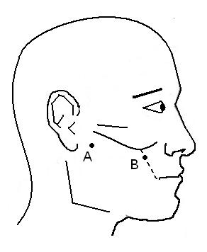 Schematic rappresentation of Chvostek points.